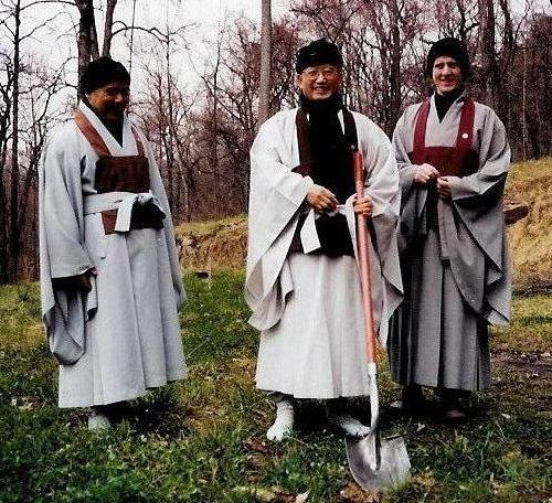 Zen masters of the Kwan Um School of Zen, from left to right: ZM Su Bong, ZM Seung Sahn, ZM Dae Gak